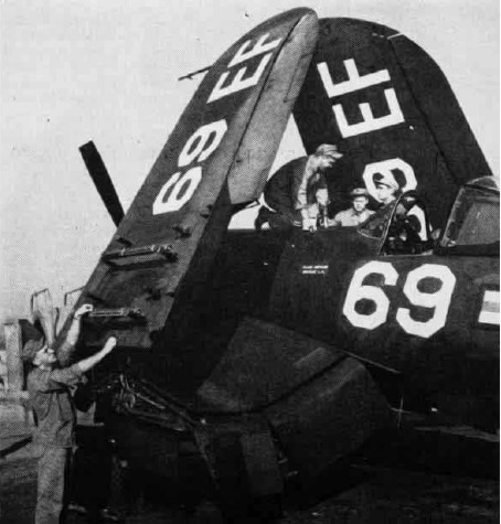 U.S. Marine Corps ground personell servicing a Vought F4U Corsair fighter of Marine fighter squadron VMF-213 at Marine Corps Air Station El Toro, California (USA), in 1947.